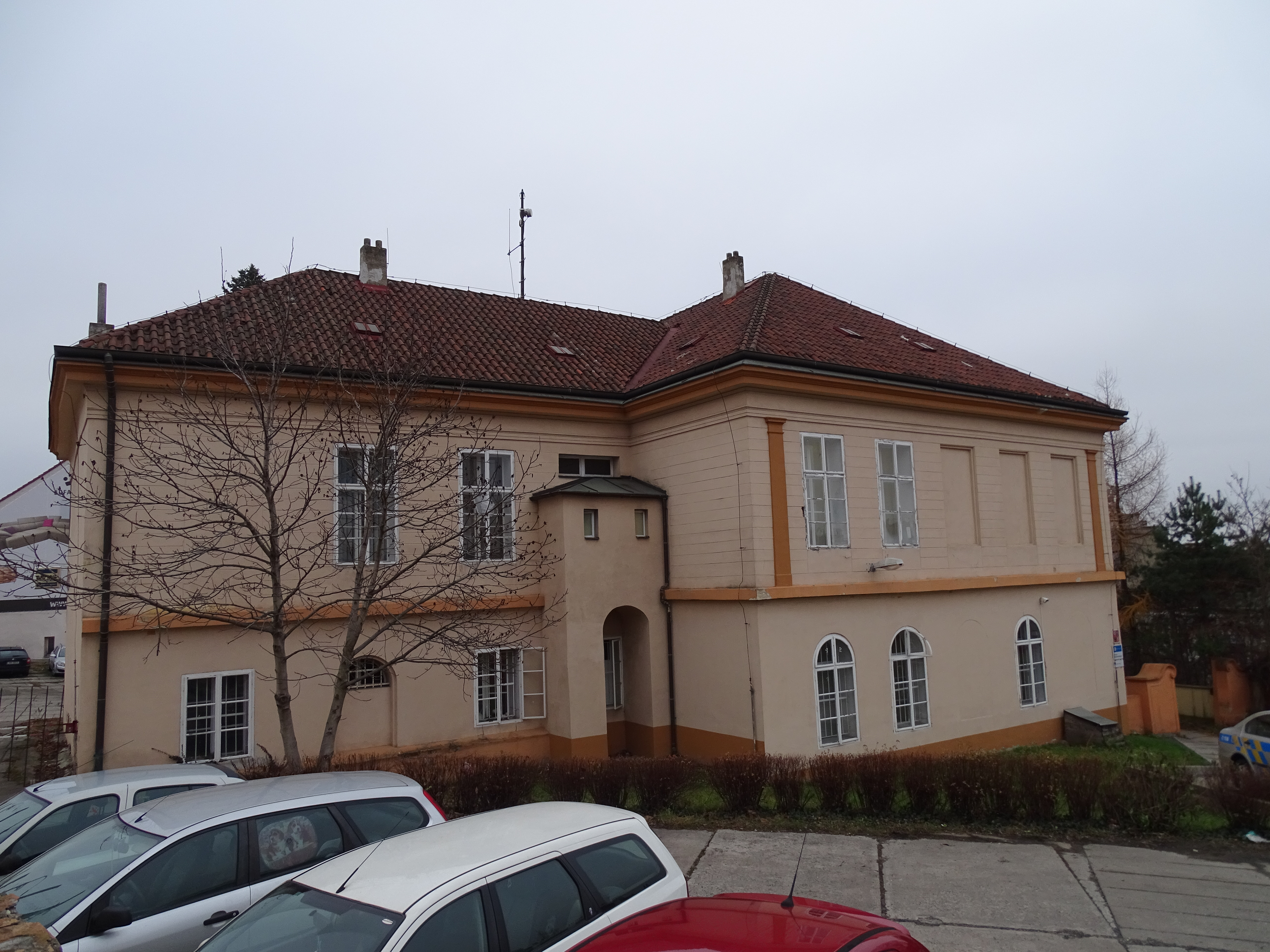 Prague-Libeň, Czechia. Zenklova 91/225, Vlachovka.